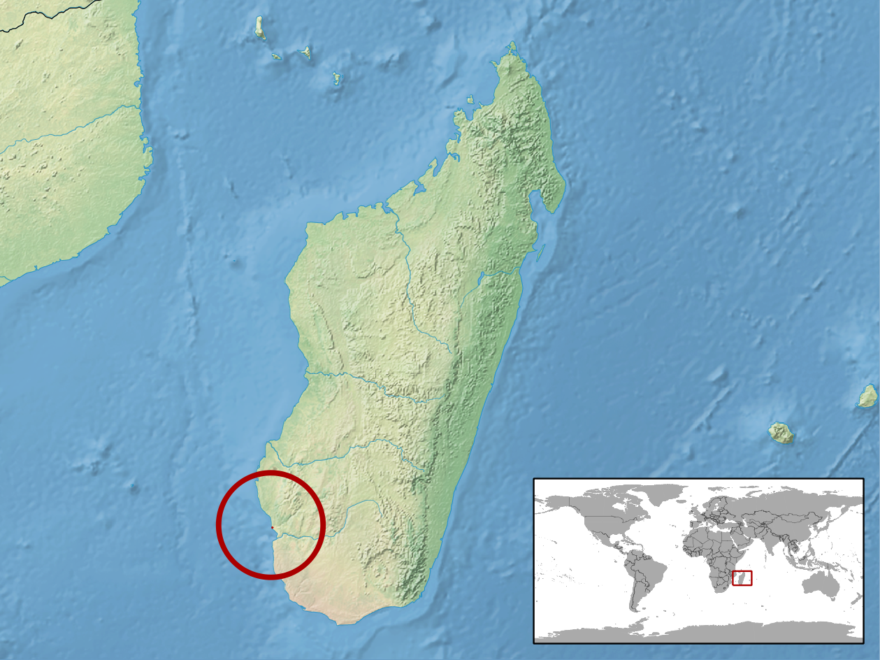 geographic distribution of Furcifer belalandaensis (Native: Madagascar)